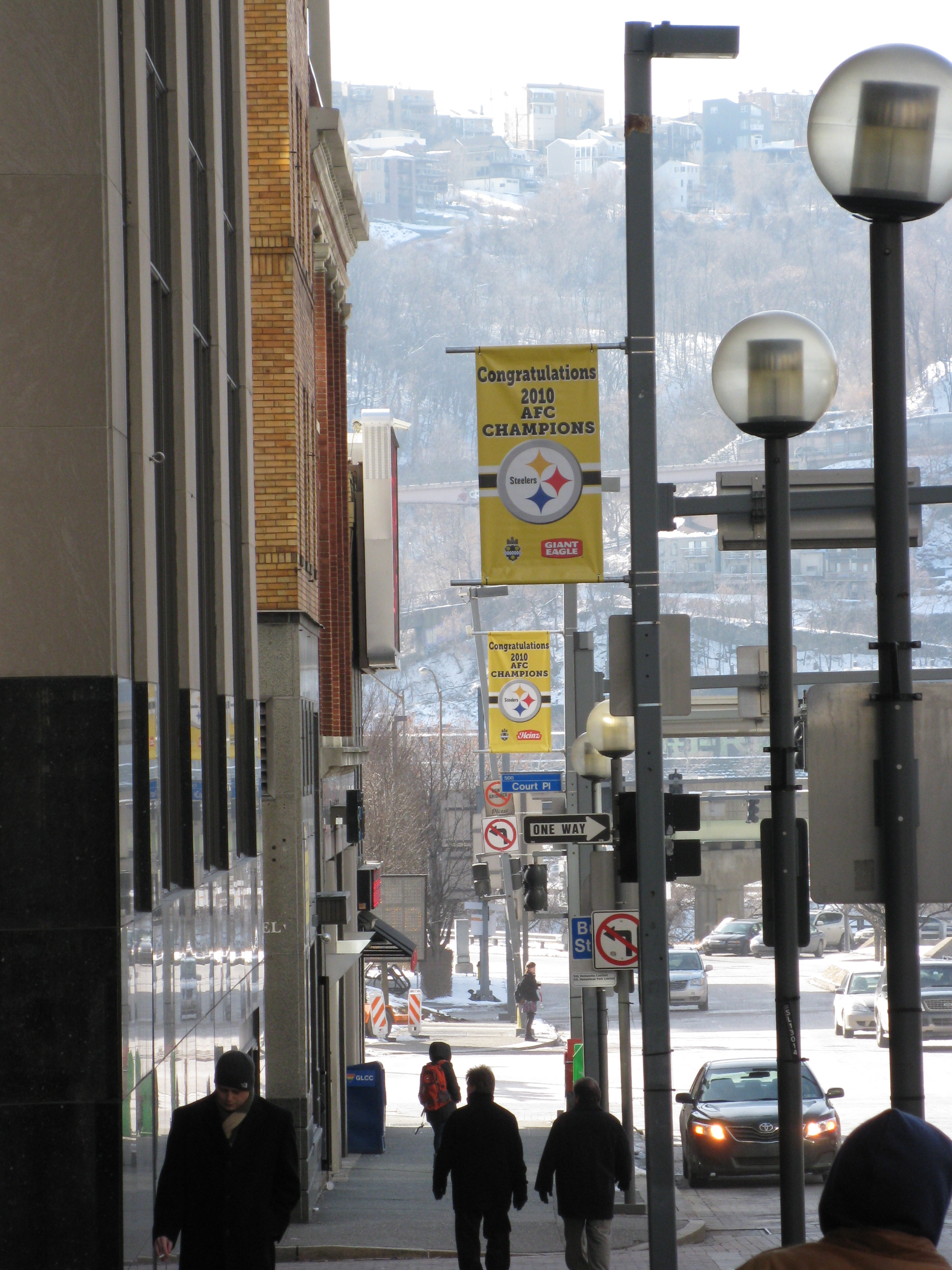 Street signs on Grant Street in Pittsburgh supporting the Pittsburgh Steelers before Super Bowl XLV